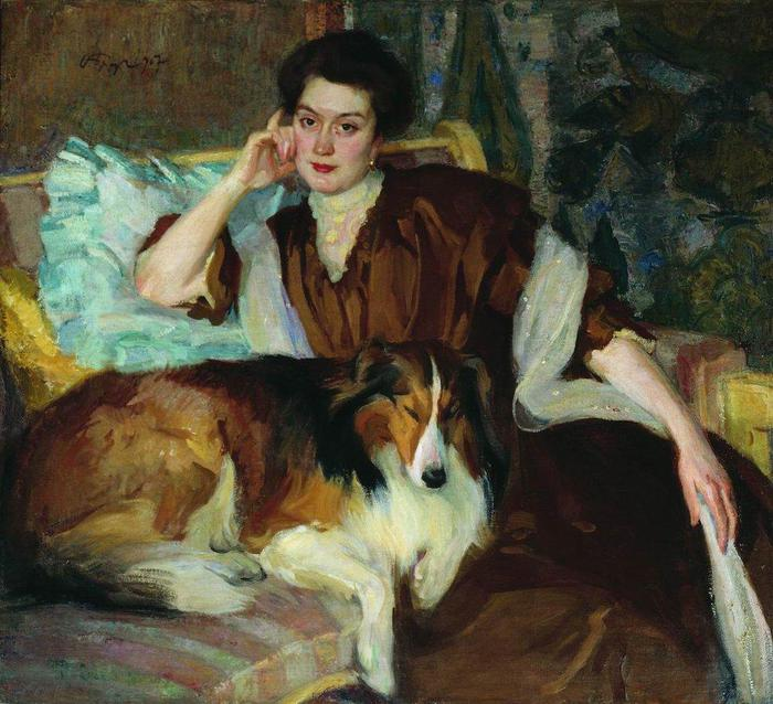 Wife